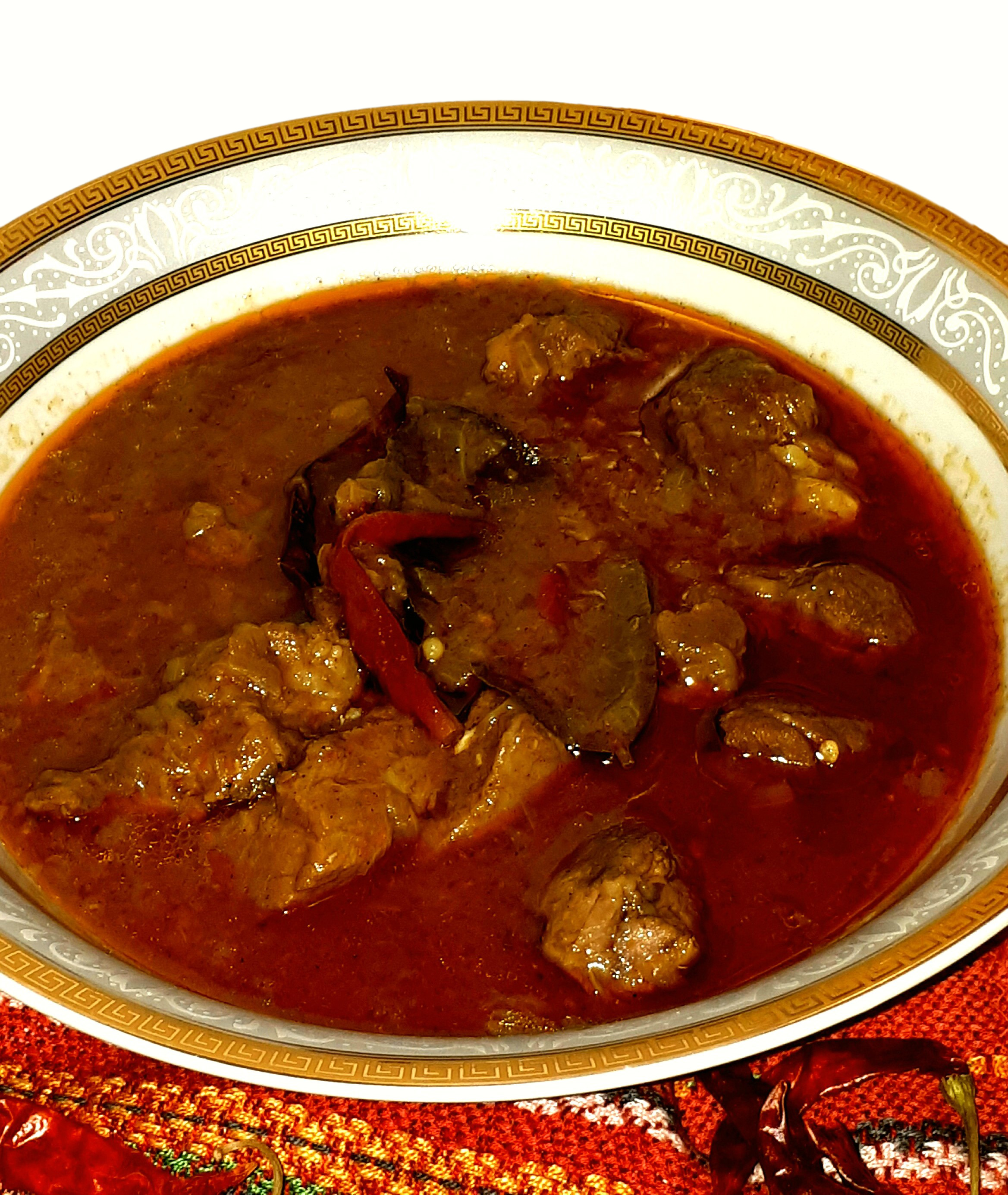 Spicy yahni (jahnia) stew with beef meat, onion, dry red chilies